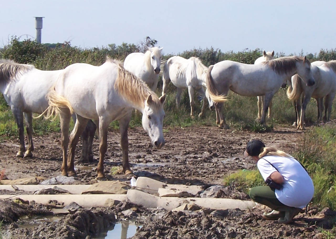 Author: User:Alex_brollo Location: Isola della Cona, Staranzano, Italy Date: sept 2005 Subject: An expert horsewoman approaching a small herd of Camargue horses. Step one: she simulates browsing and she waits.